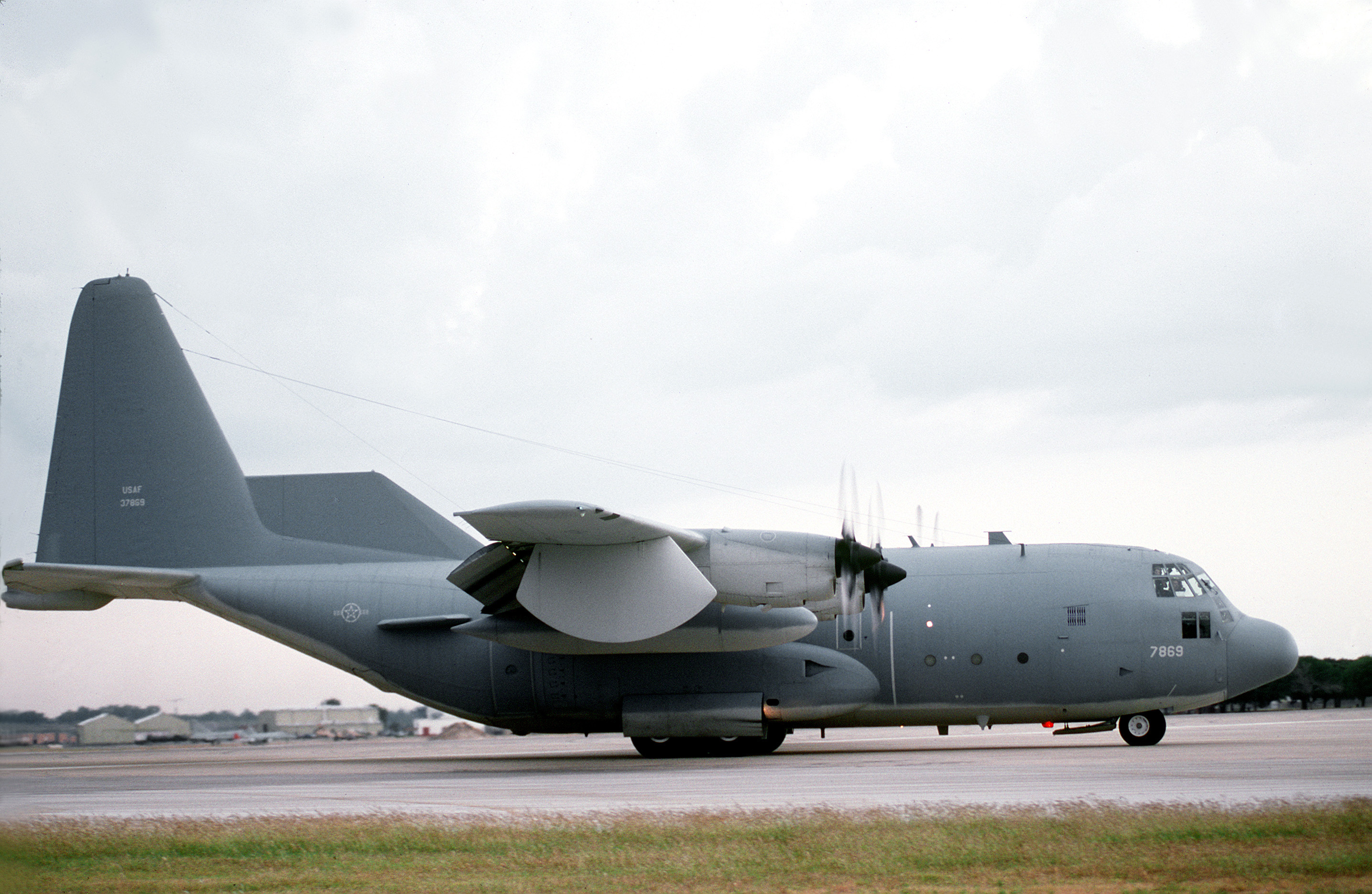 A U.S. Air Force Lockheed EC-130E Hercules (s/n 63-7869) assigned to the 193rd Special Operations Squadron, 193rd Special Operations Group, Pennsylvania Air National Guard, at Middletown, Pennsylvania (USA). The unit's primary mission was to broadcast tactical psychological operations messages over radio frequencies and standard television channels during contingencies or engagements. Built as an C-130E, 63-7869 was converted to an EC-130E in April 1979 and modified to an EC-130H Commando Solo in January 1993.